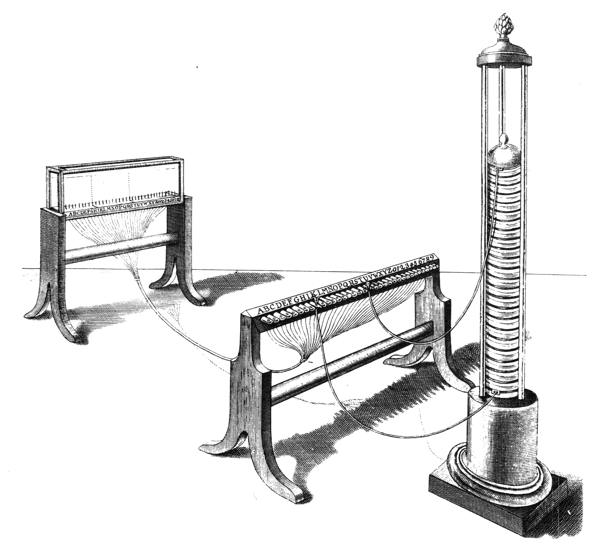 Tab. V (following page 414). Sömmerring's electric telegraph.